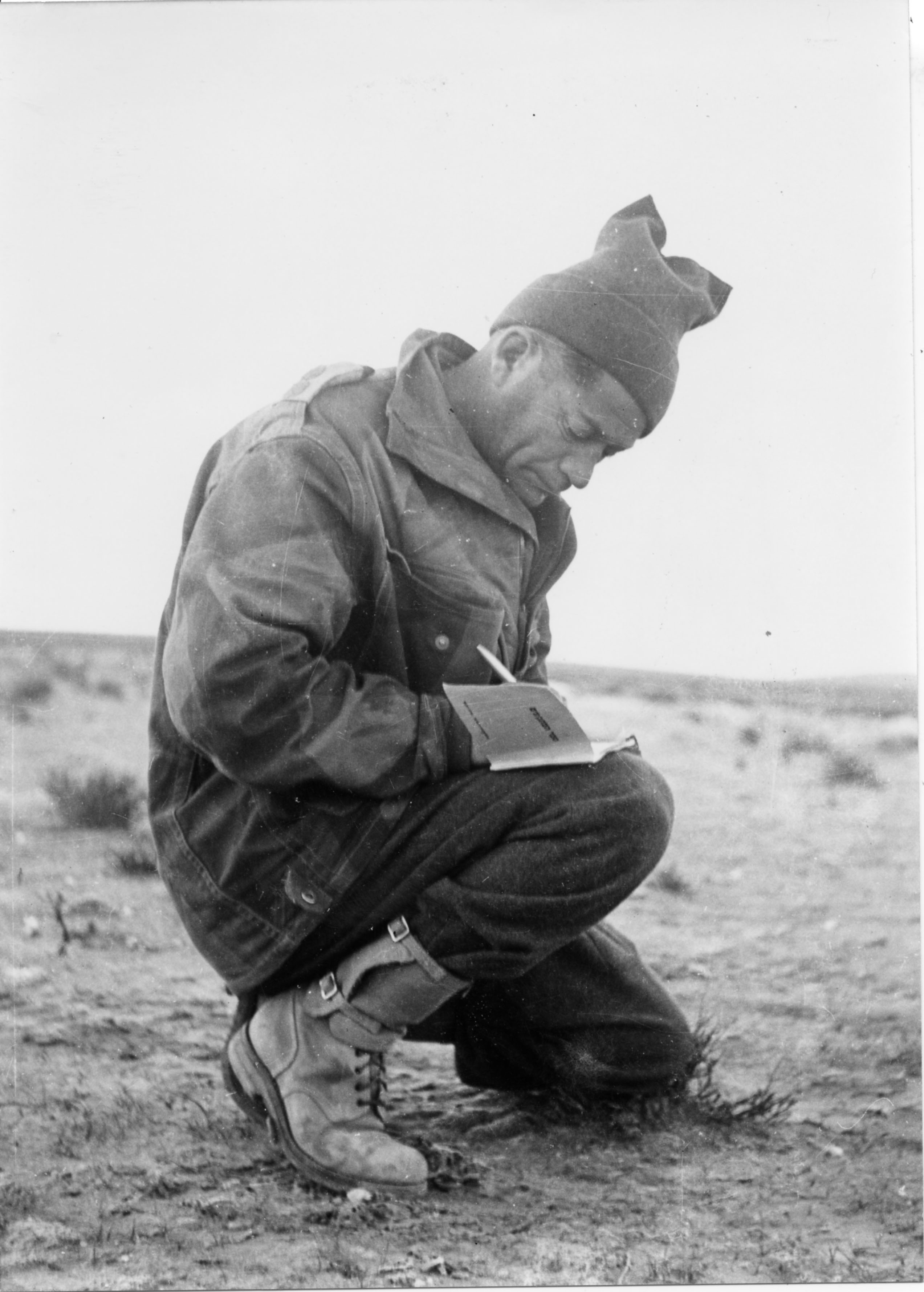 The Palmach, Israel Defense Forces